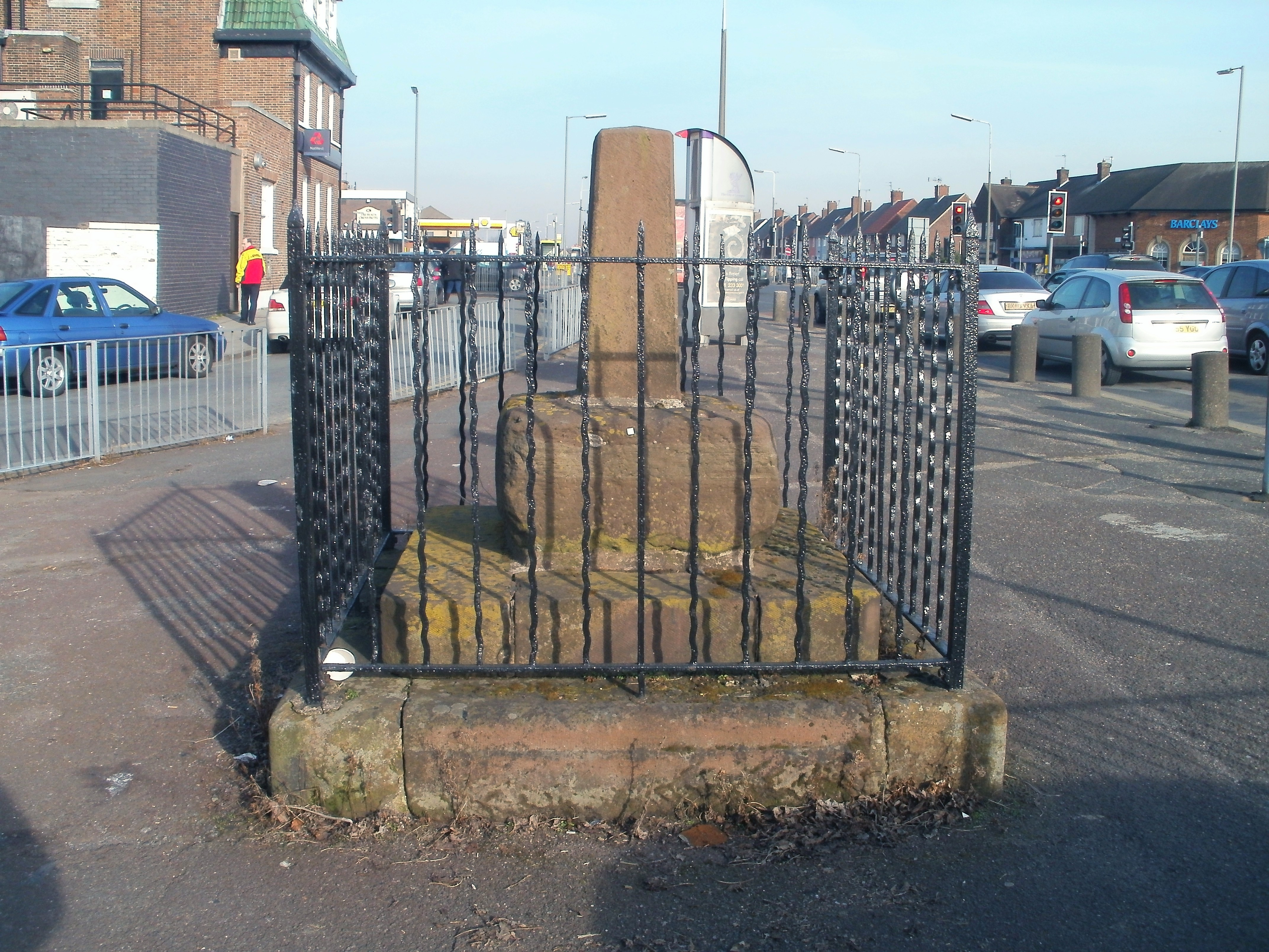 Hunts Cross village cross pedestal 28 February, 2013